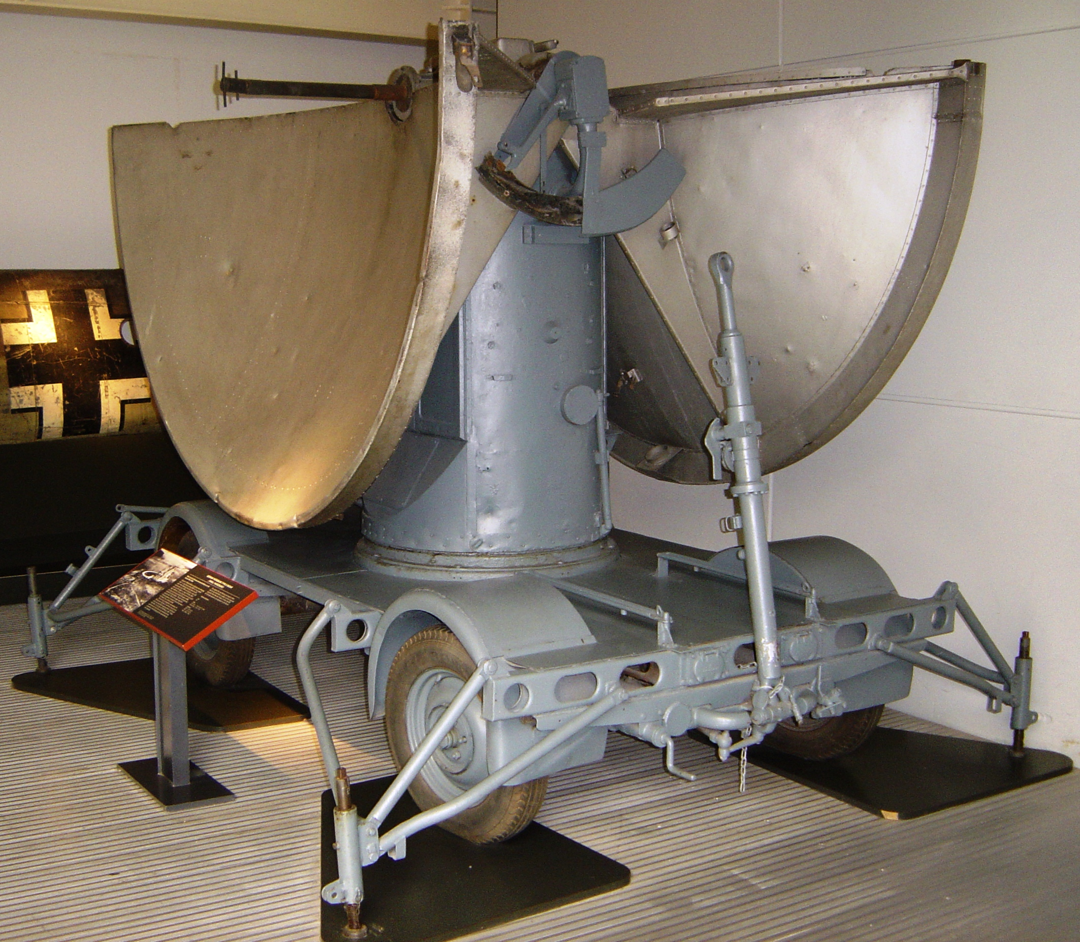 Würzburg radar type A at Imperial War Museum